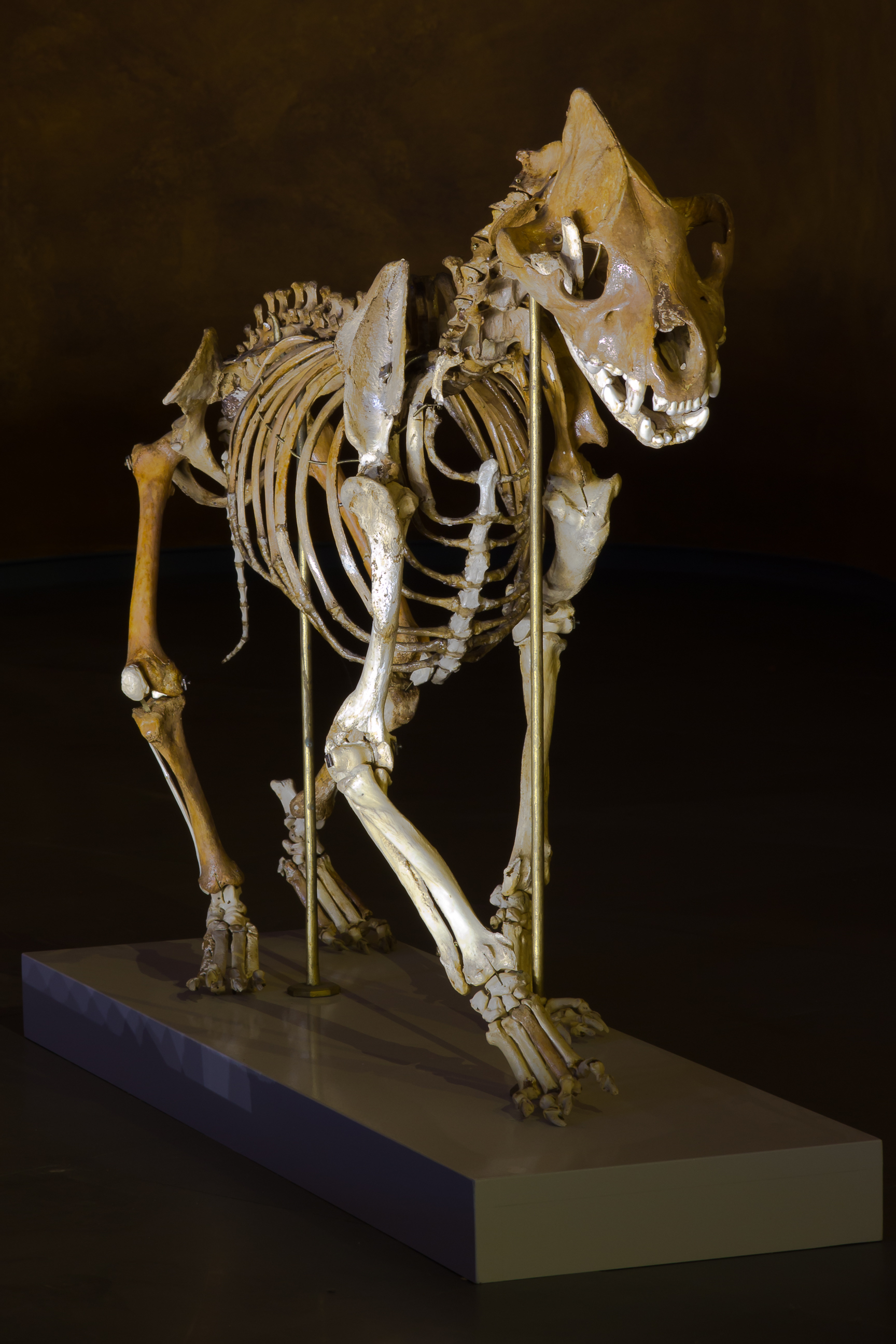 Cave hyena (Crocuta crocuta spelaea), 1.8/0.01 million year B.C., Aventigan, Hautes-Pyrénées, France